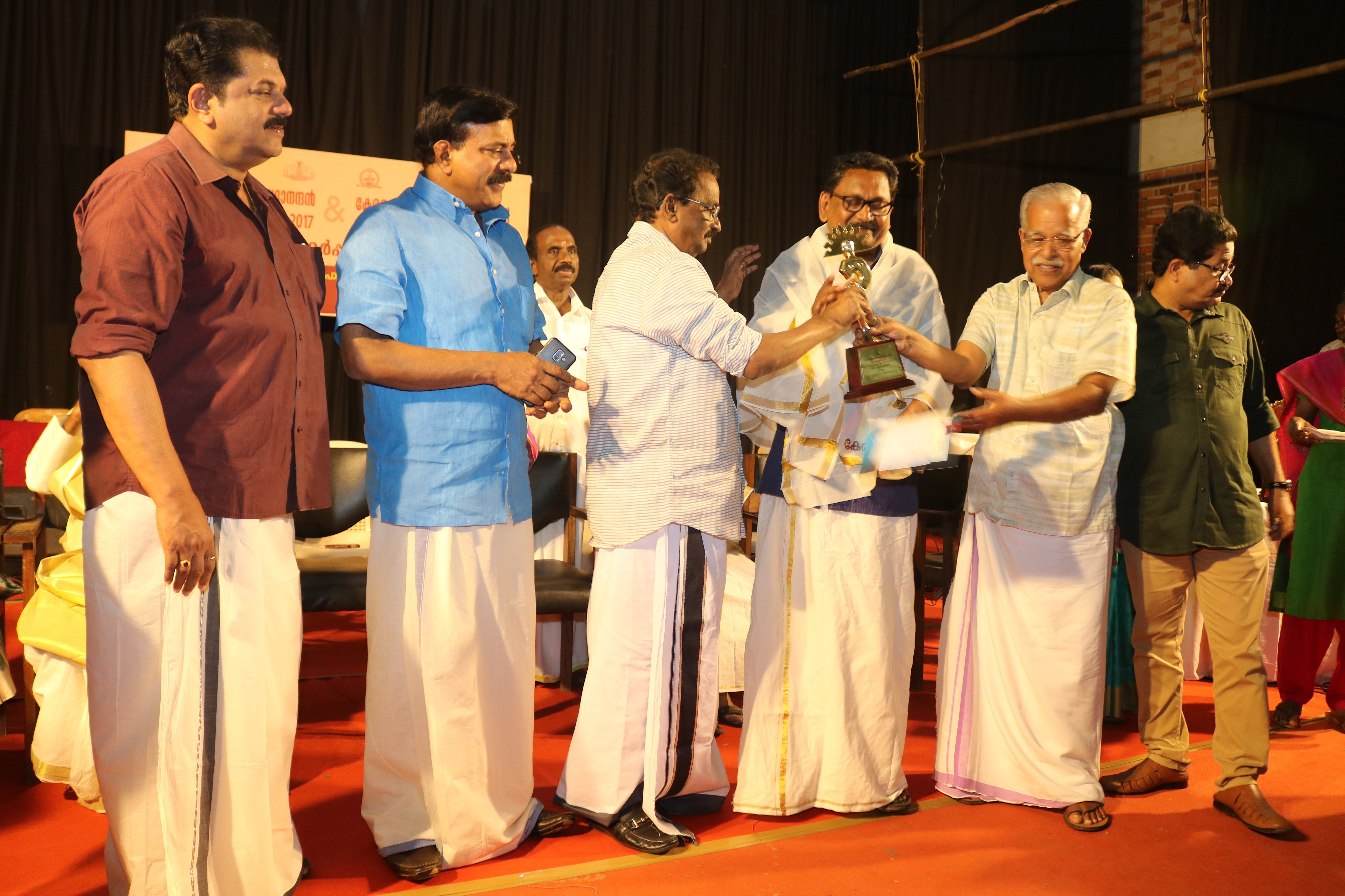 PJ Unnikrishnan recieving Kerala sangeetha nataka academy award 2019 at Kollam